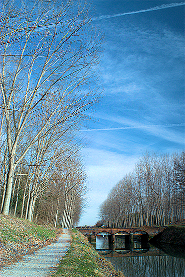 Canale Vacchelli near Izano (Italy)